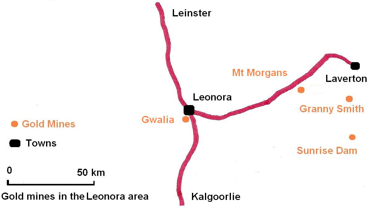 Map of gold mines in the Leonora region of Western Australia